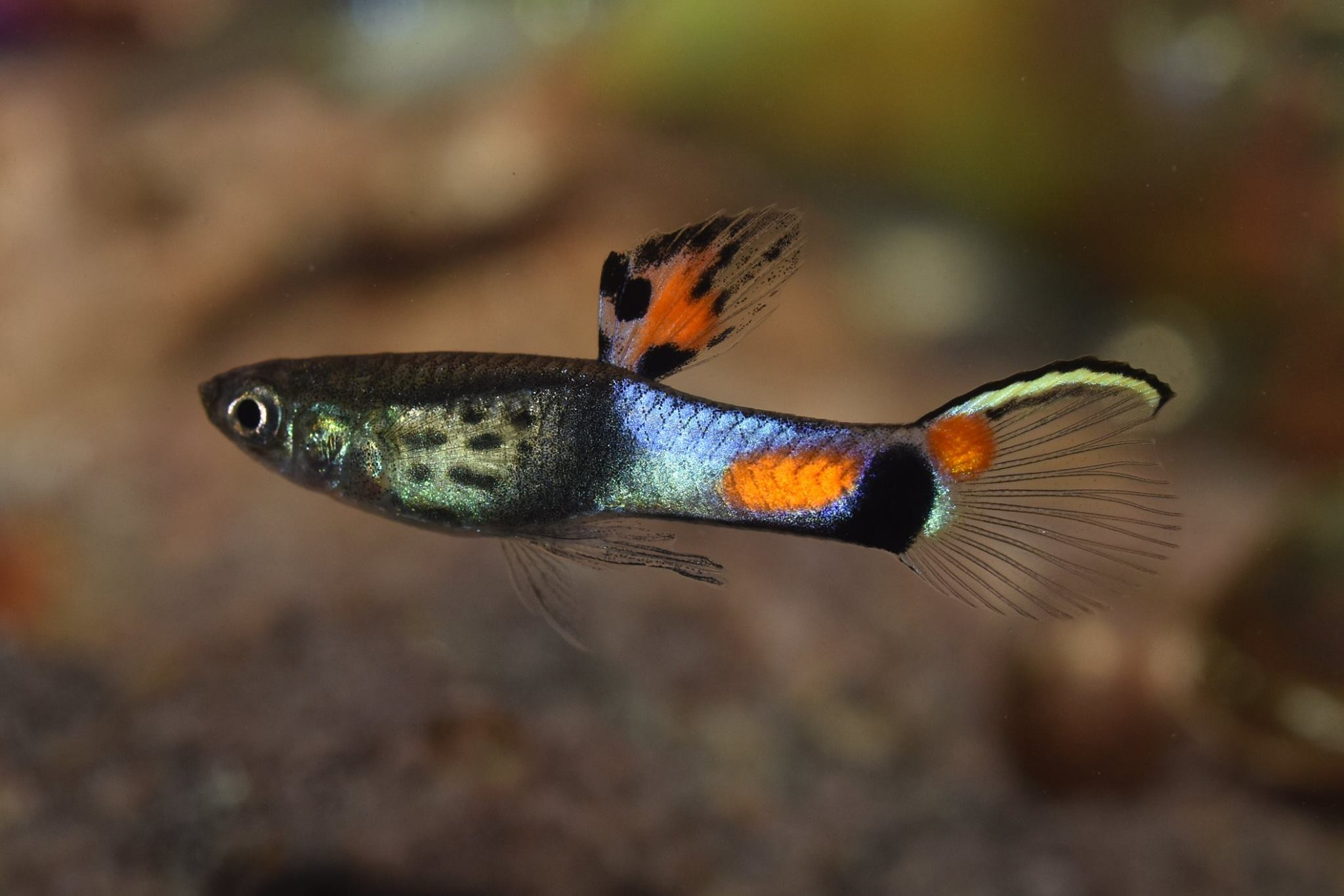 Poecilia Wingei collected from the Campoma bridge location in Venezuela by Philderodez